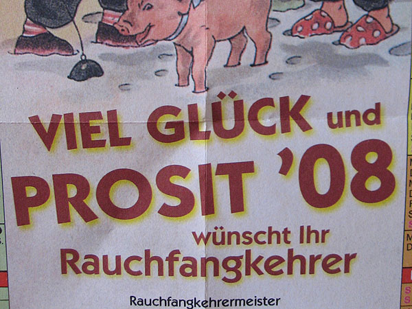 Examples for differing vocabulary in Austrian Standard German A chimneysweeper is called "Rauchfangkehrer" in Austria. Hence chimneysweeper are thought to bring good luck around New Year's holidays, in recent years the custom arose that on this occasion they give away small calenders to their customers with New Year's wishes.